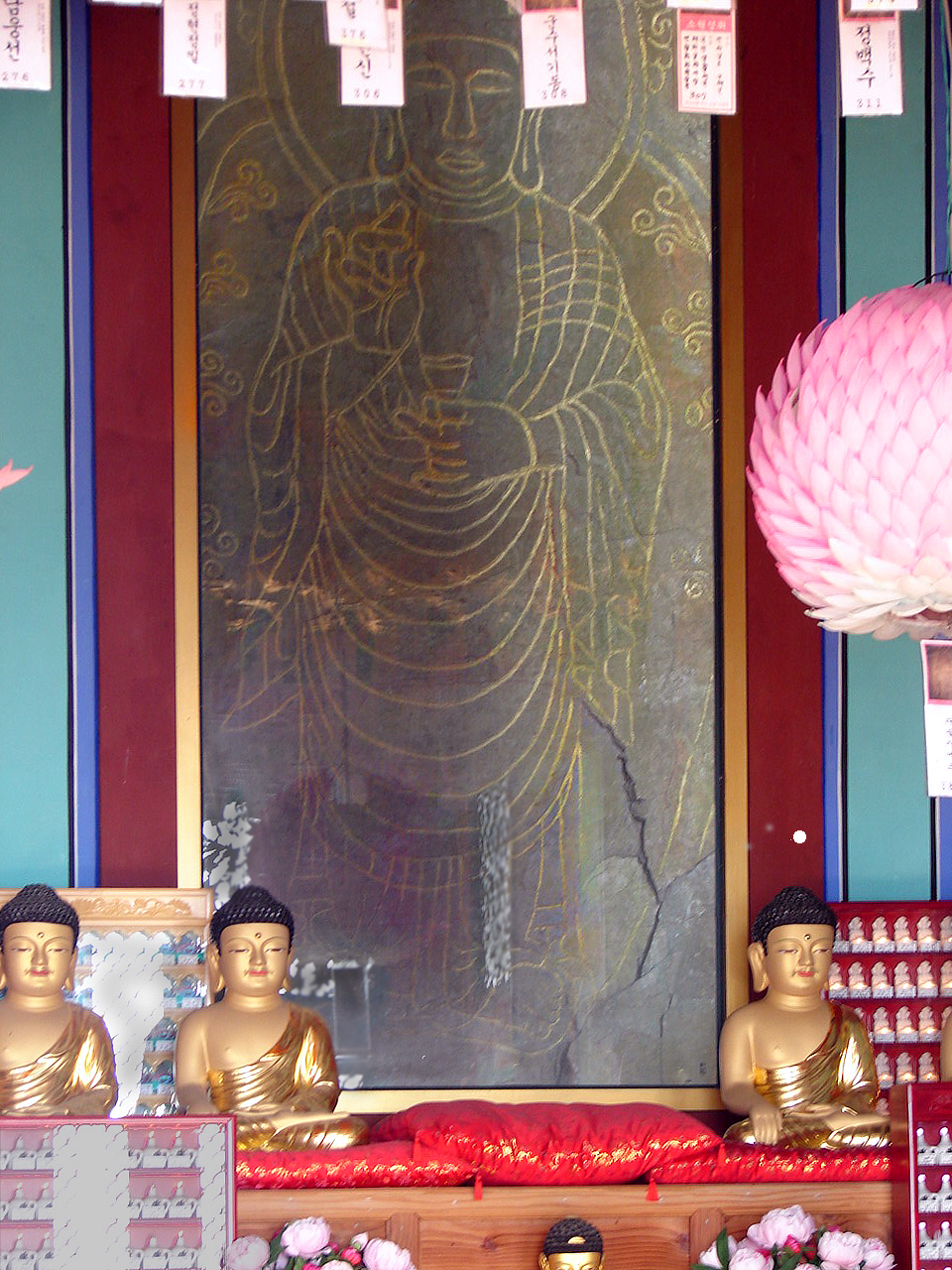 Main Hall This the standing Buddha cut into rock face, called Maaeyeoraeipsang (마애여래입상). The Buddha carved into the rock face is visible through a large glass window that makes up most of the back wall of the main hall. Saseongam (hermitage) is said to have been built by Priest Yeongi Chosa in 544. Named Saseongam, or the Hermitage of Four Saints, after four high priests: Yongi Chosa, Wonhyo Taesa, Toseon Kuksa, and Chinkak Seonsa, that lived and worked here at some time. Saseong Hermitage is Jeollanamdo Cultural Property Material #33.